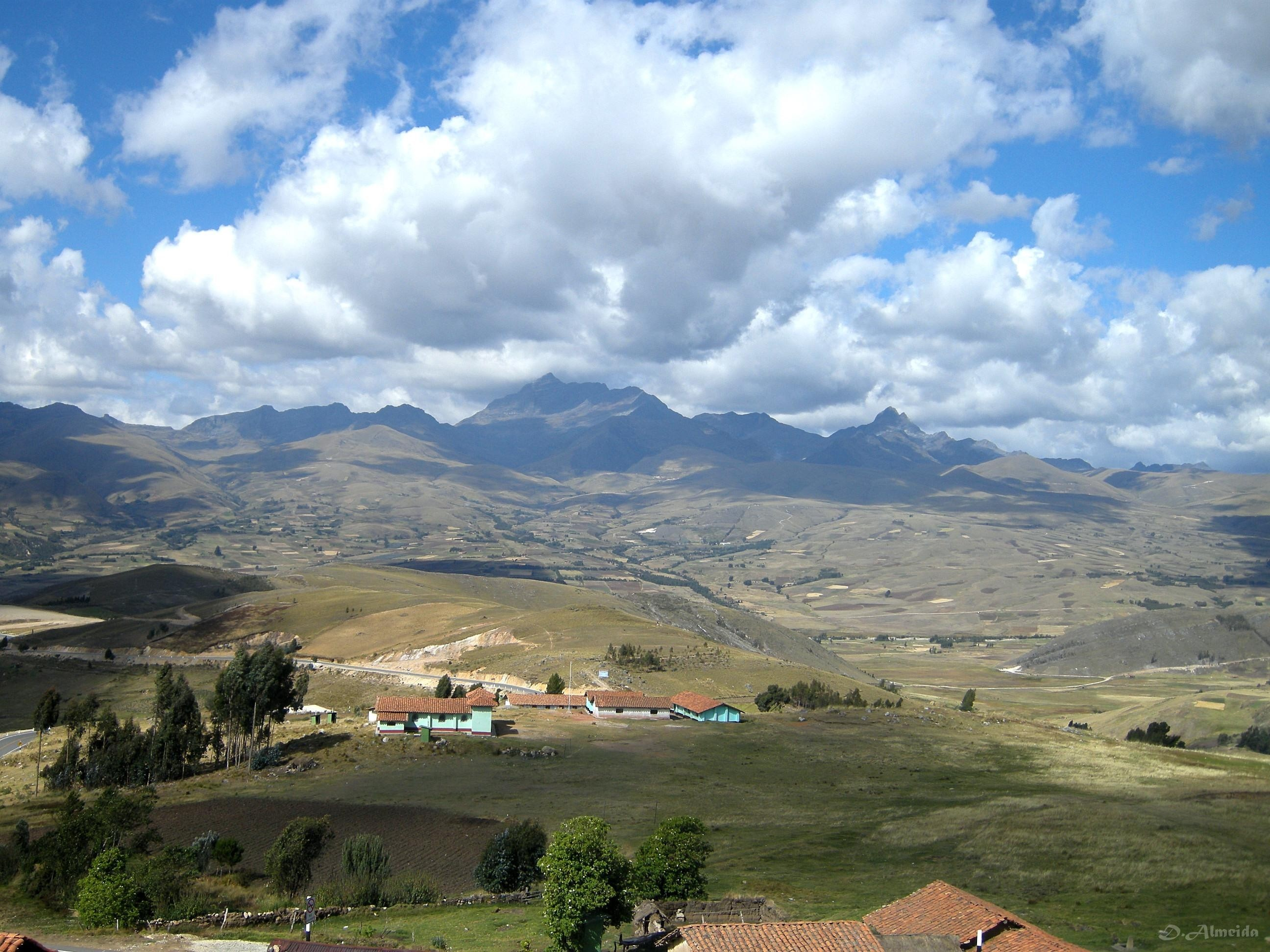 A view of the Andes mountains close to Huamachuco, the capital city of Sánchez Carrión province in northern Peru.